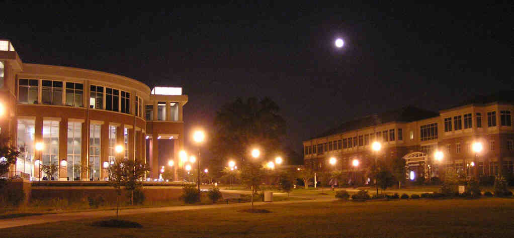 Image of the College of Information Technology building at Georgia Southern University on a full moon, summer night. Photograph taken by Richard Chambers summer of 2004 using an Olympus C-740 digital camera on a tripod.